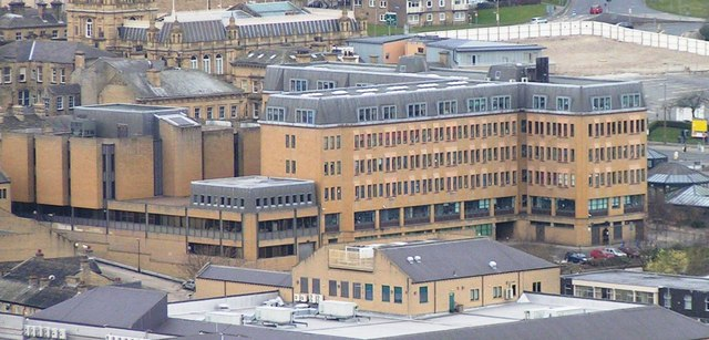 Northgate House from Beacon Hill Road